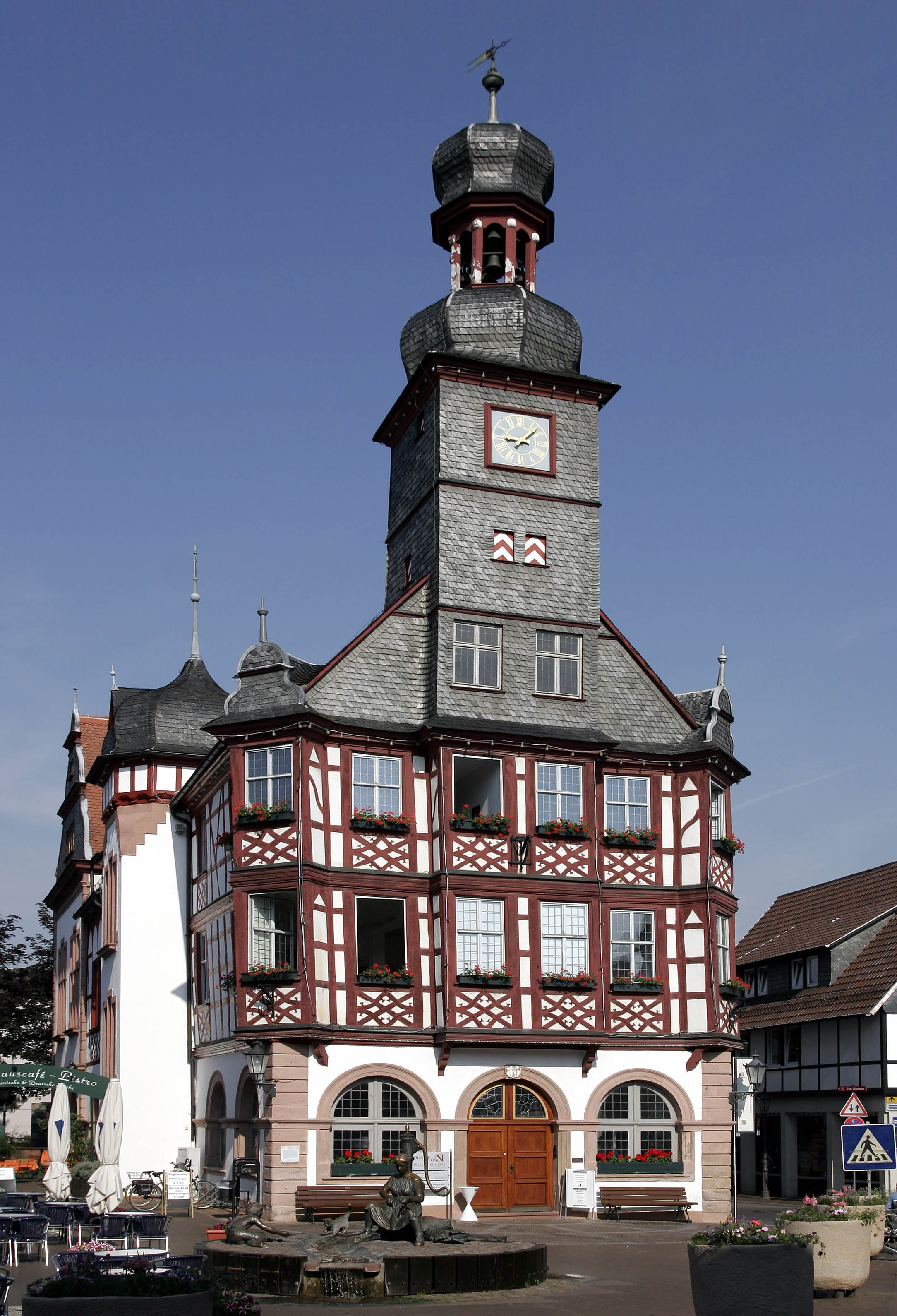 The city hall of Lorsch (Hesse, Germany)